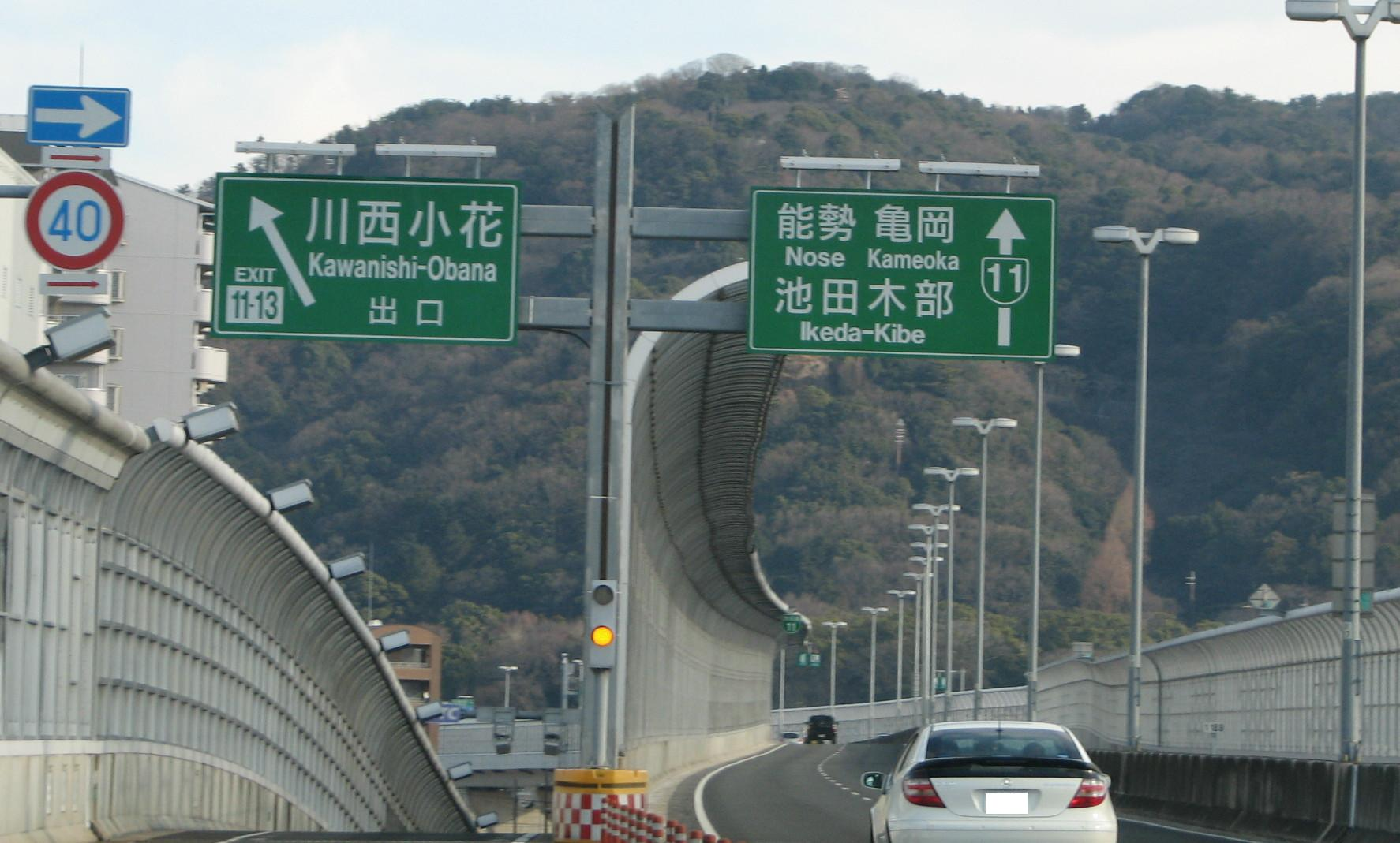 Hanshin Expressway Kawanishi-Obana IC